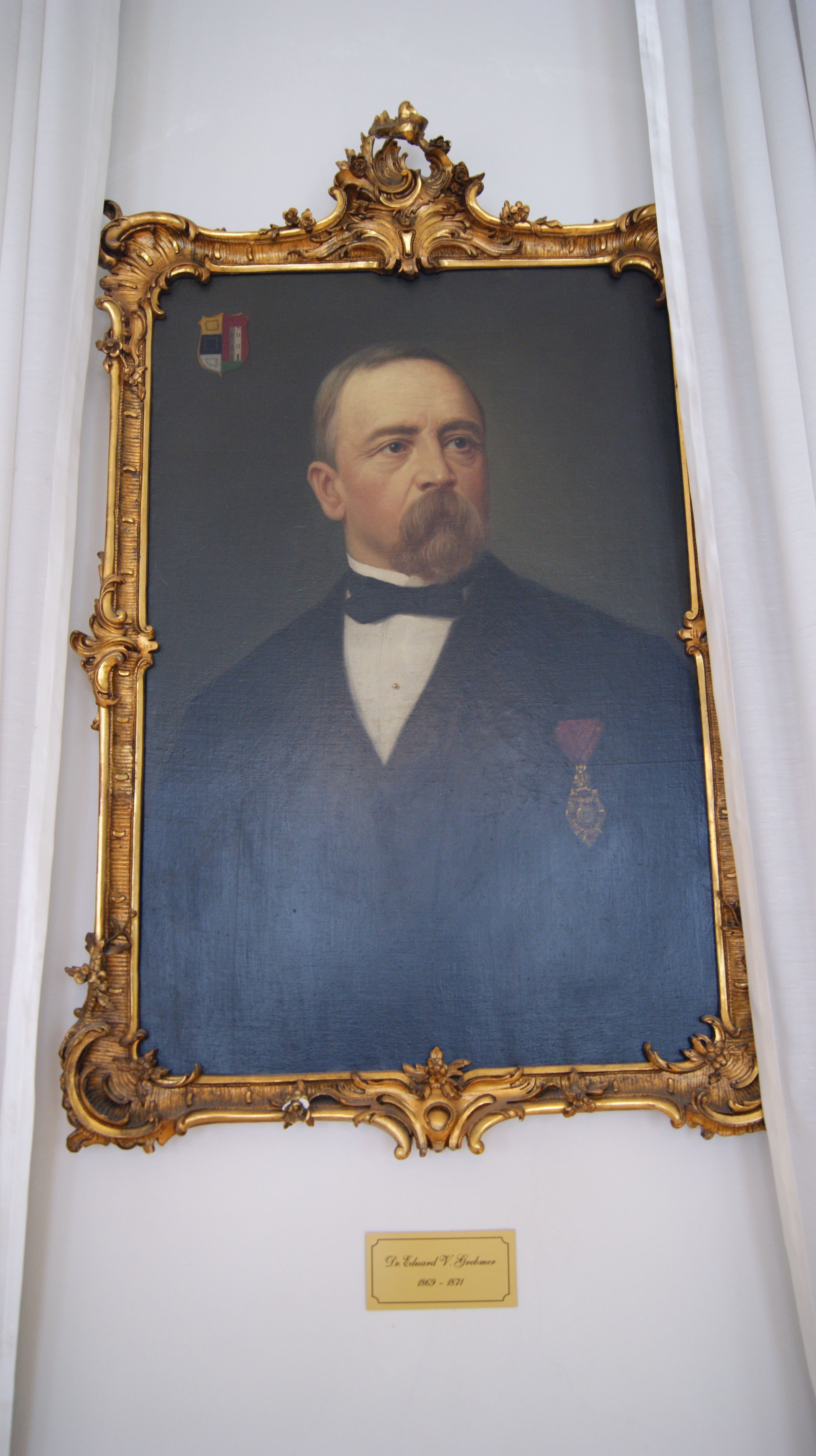 Eduard von Grebmer zu Wolfsthurn, head of the Provincial Government of Tyrol.